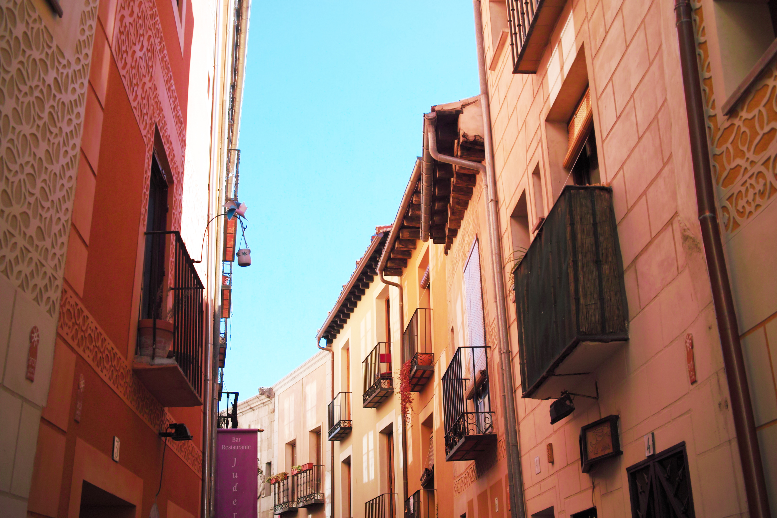 Street of the Jewish Quarter in Segovia, Spain.